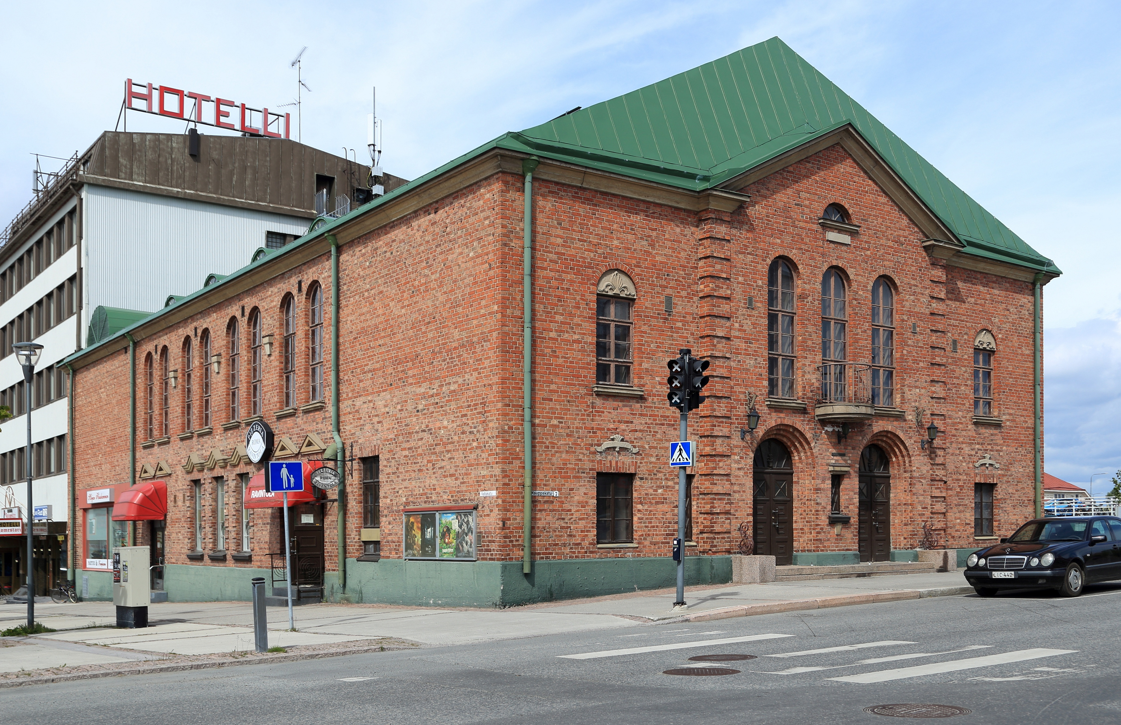 Kemin Pirtti.